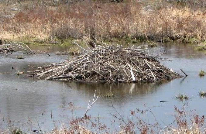 Beaver Lodge, 15 Apr 2006. South Frontenac Township, Ontario, Canada. 20' diameter approx.